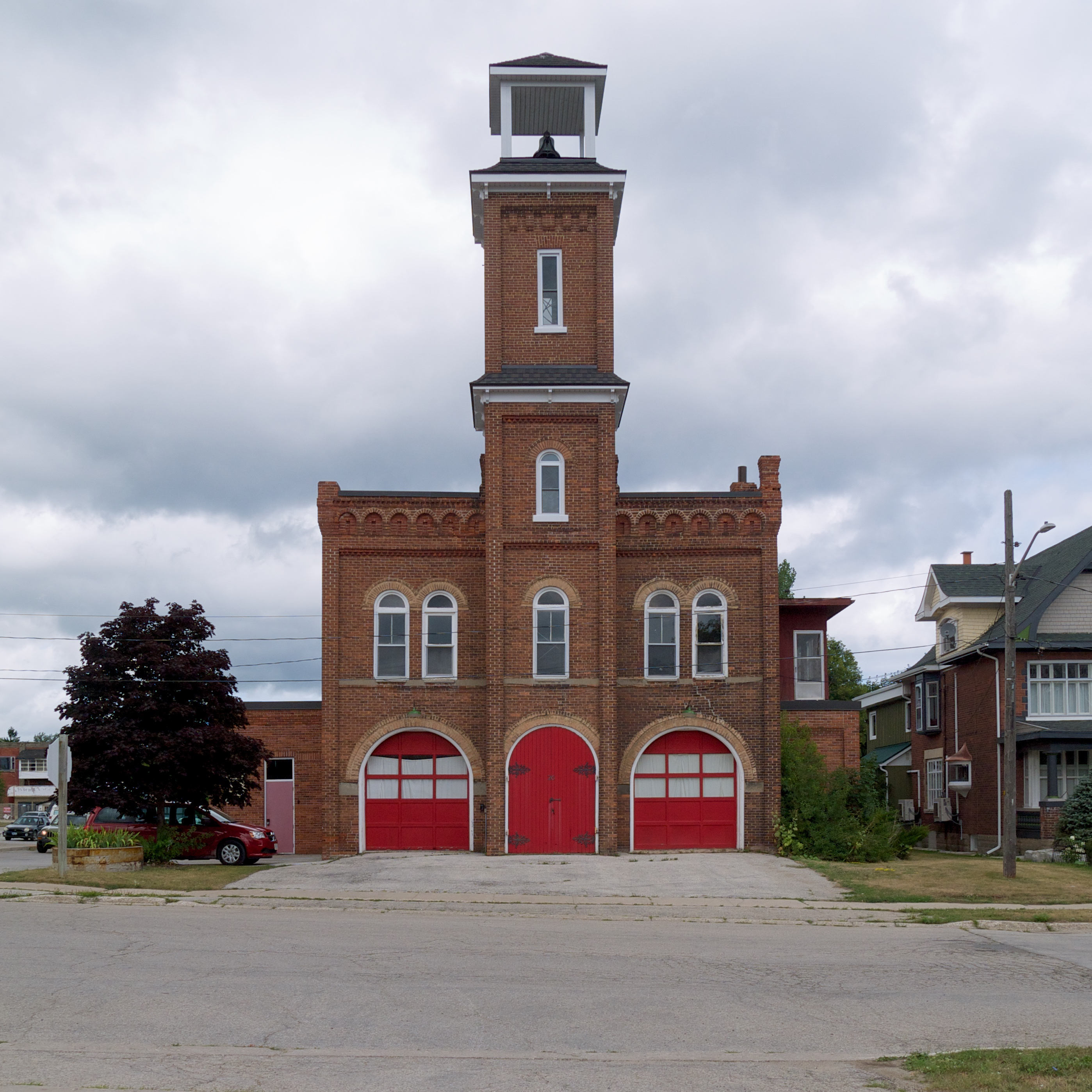 The original Meaford Fire Hall built in 1887.